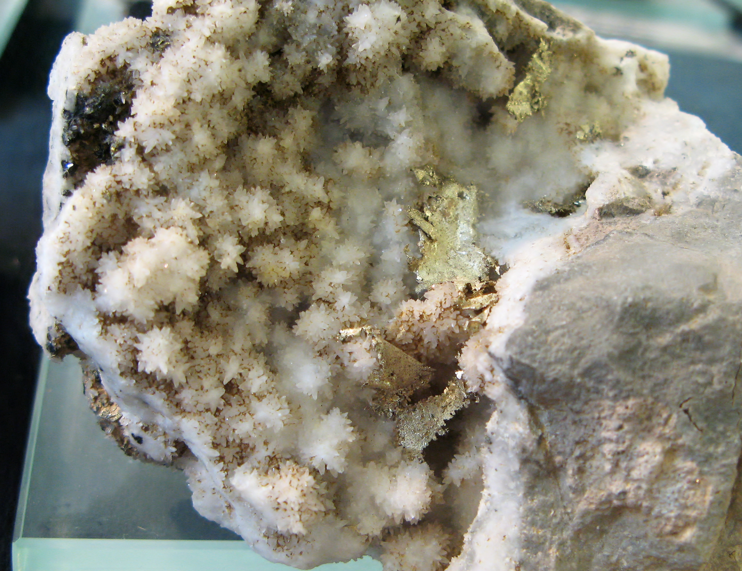 Silverrich Freegold (native Gold with higher percentage of Silver), sheet form - Locality: Verespatak (Rosia Montana), Romania - Exposed in the Mineralogical Museum, Bonn, Germany